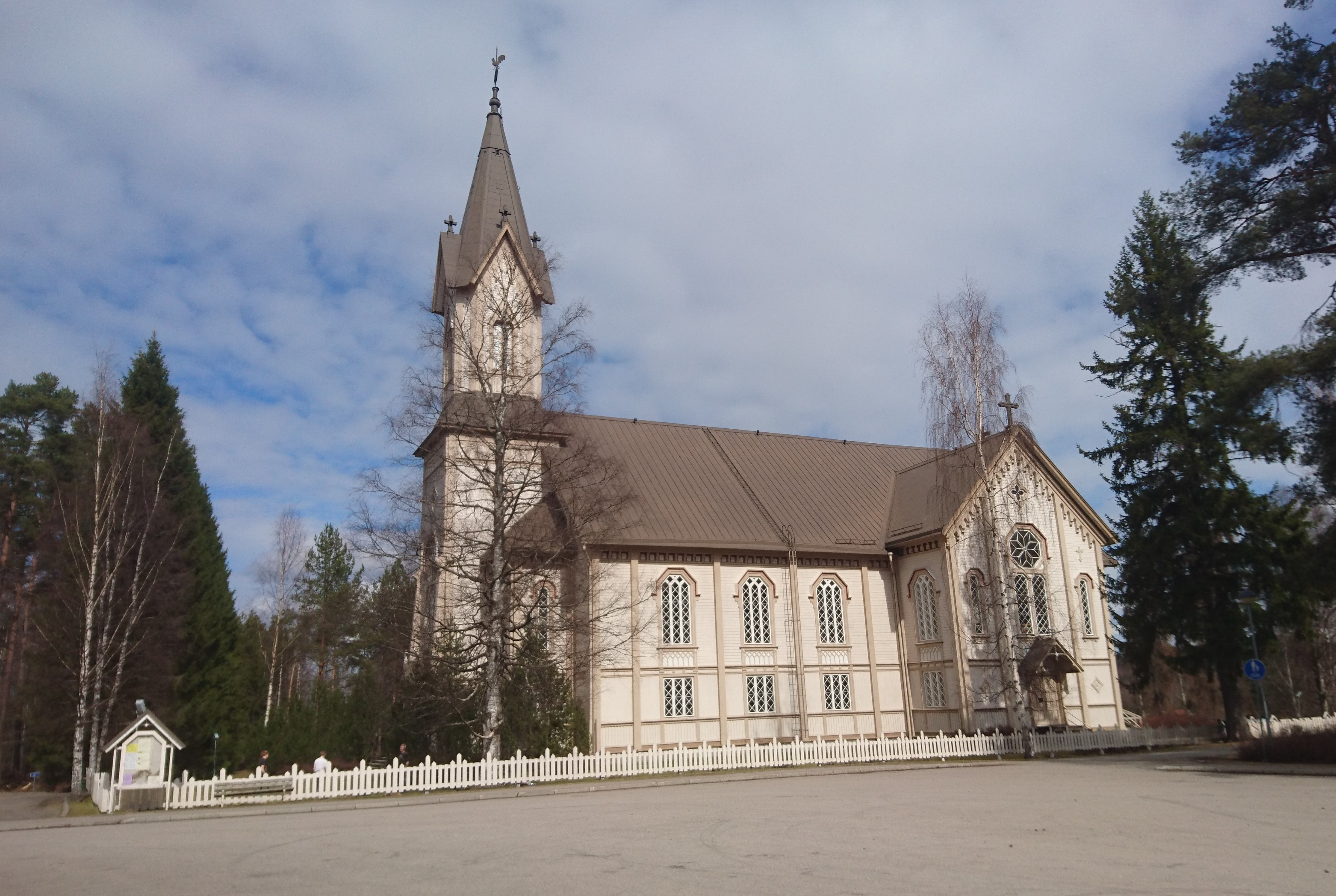 Hankasalmi Church in Hankasalmi, Finland.